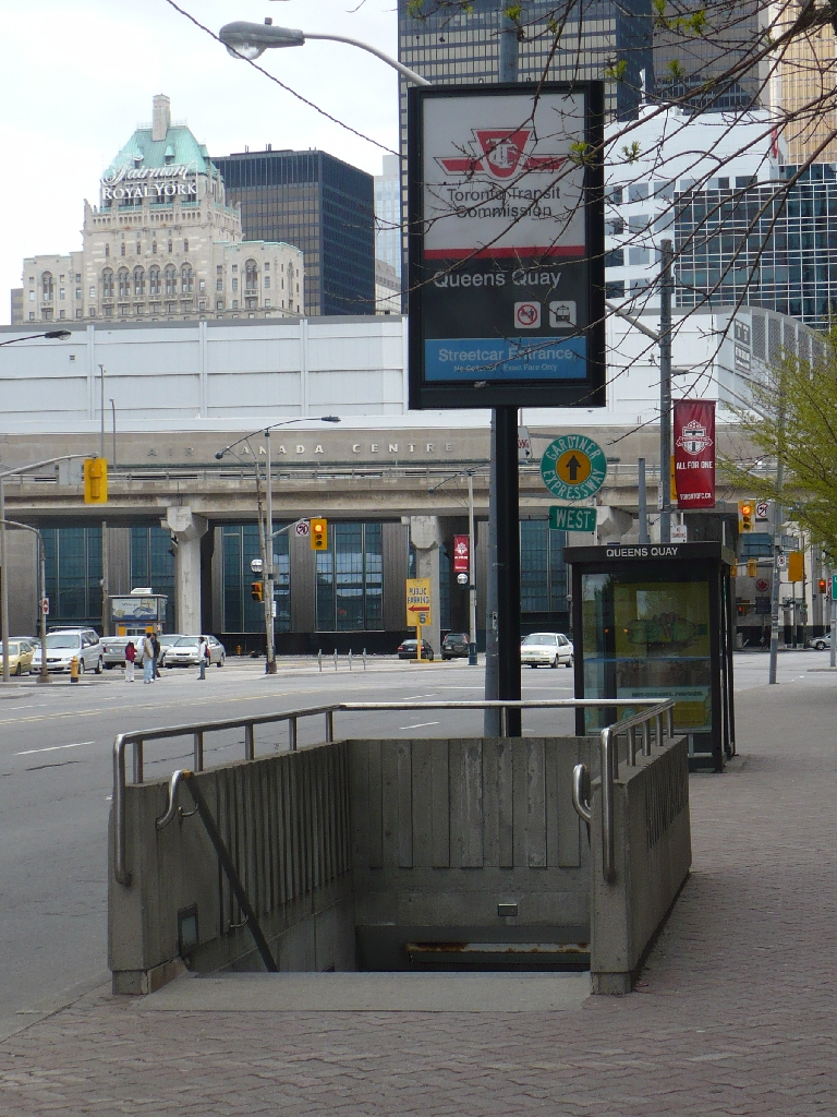 entrance on the east side of Bay Street to the underground Queens Quay streetcar station